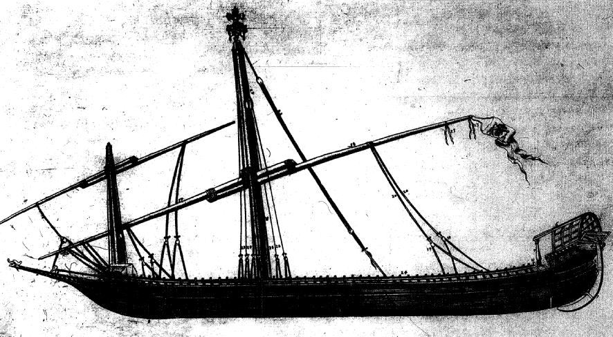 Drawing of a late 16th century Mediterranean galley. Taken from Nautica mediterranea: nella quale si mostra la fabrica delle galee galeazze, e galeoni (...), by Bartolomeo Crescenzio. Rome, 1607.